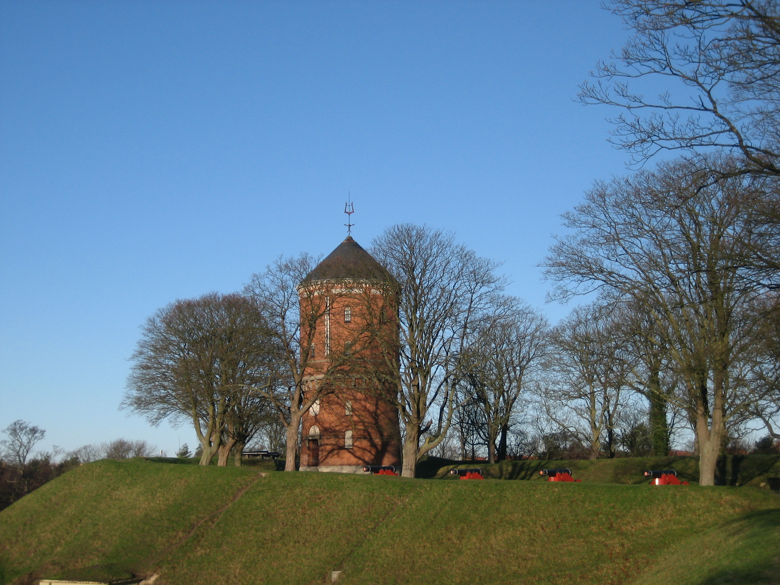 Nyborg, Denmark. The water tower on the Queen's Bastion (Dronningens Bastion).